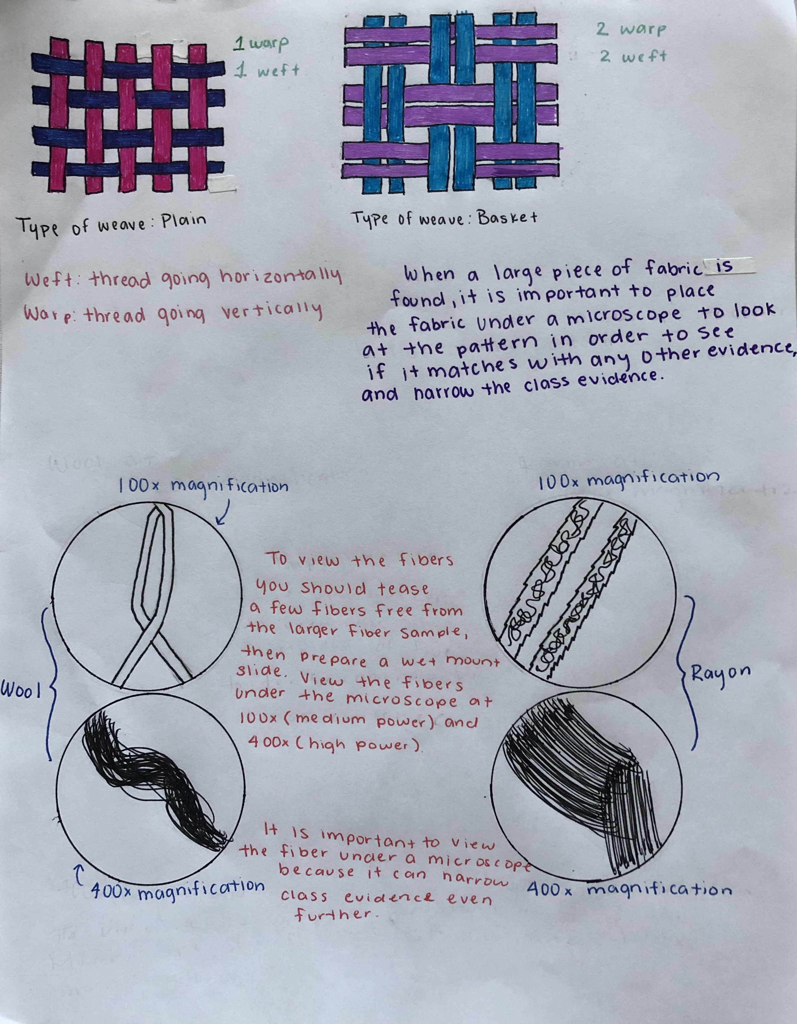 It is important to view fiber samples under a microscope to compare evidence and to narrow down the class evidence. If there is a large sample, view the weave of the cloth under low power (40x) and medium power (100x) to determine the pattern. If the fibers are small and individual, prepare a wet mount slide and view the fibers under the microscope at medium power (100x) and high power (400x) to determine the material of the fibers and help subside class evidence.